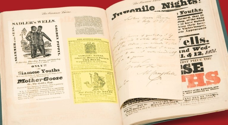 Two facing pages. A typical spread of pages from the Chang and Eng scrapbook, On the United Siamese Twins. From Willinham, J. Scrapbook of 19th century emphemera and other printed and graphic materials relating to Chang and Eng Bunker, known at the time as the ’Siamese youths’.